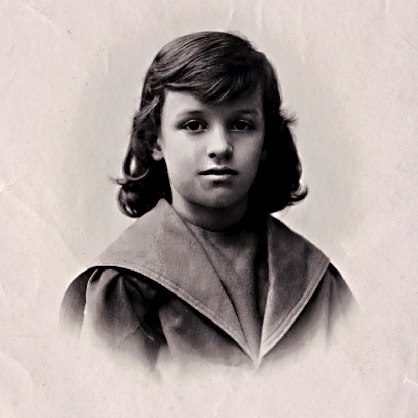 Arnold Heinrich Fanck (1889–1974) as a student